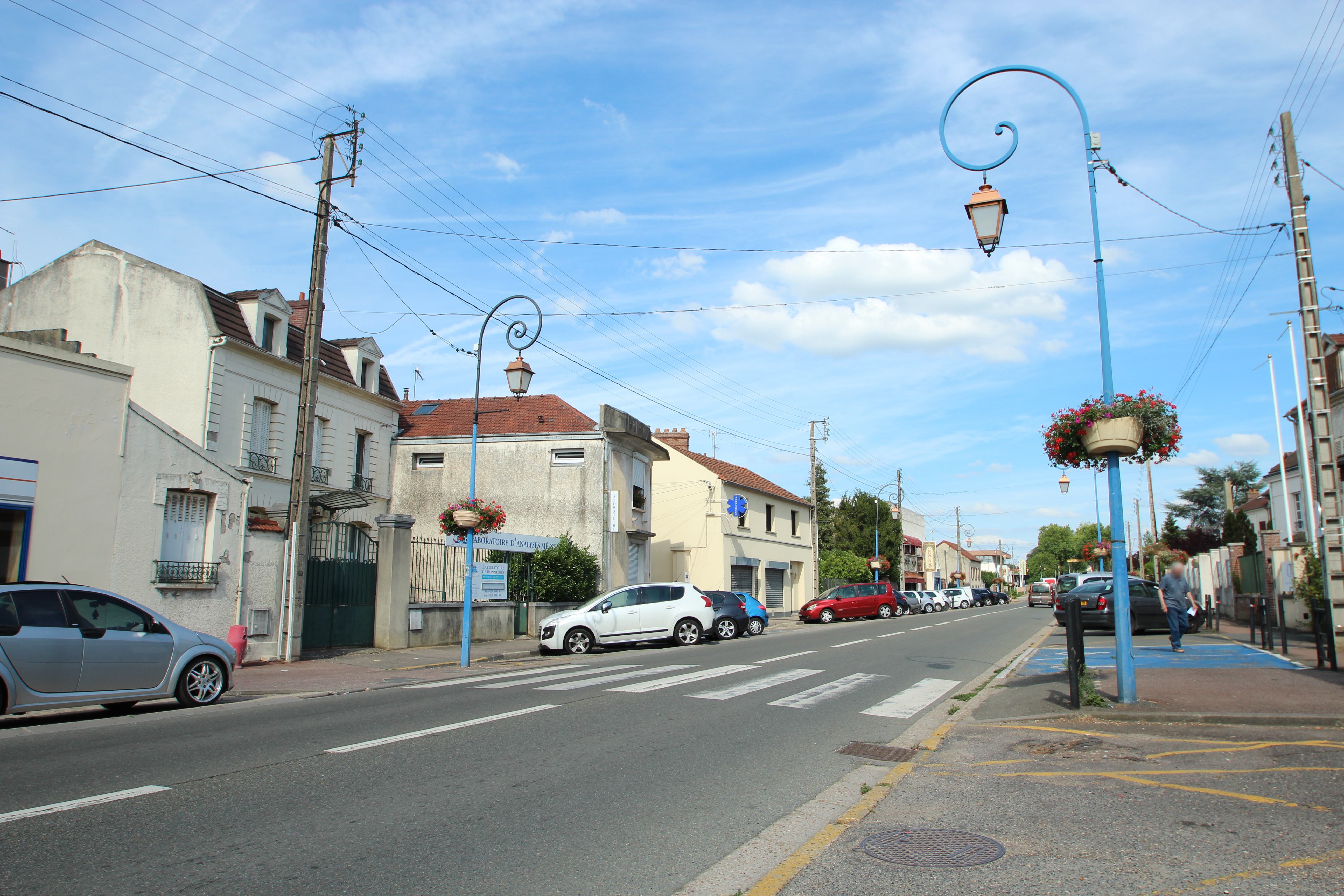 View of Bonnières-sur-Seine, France This image was uploaded as part of L'Été des villes 2015.